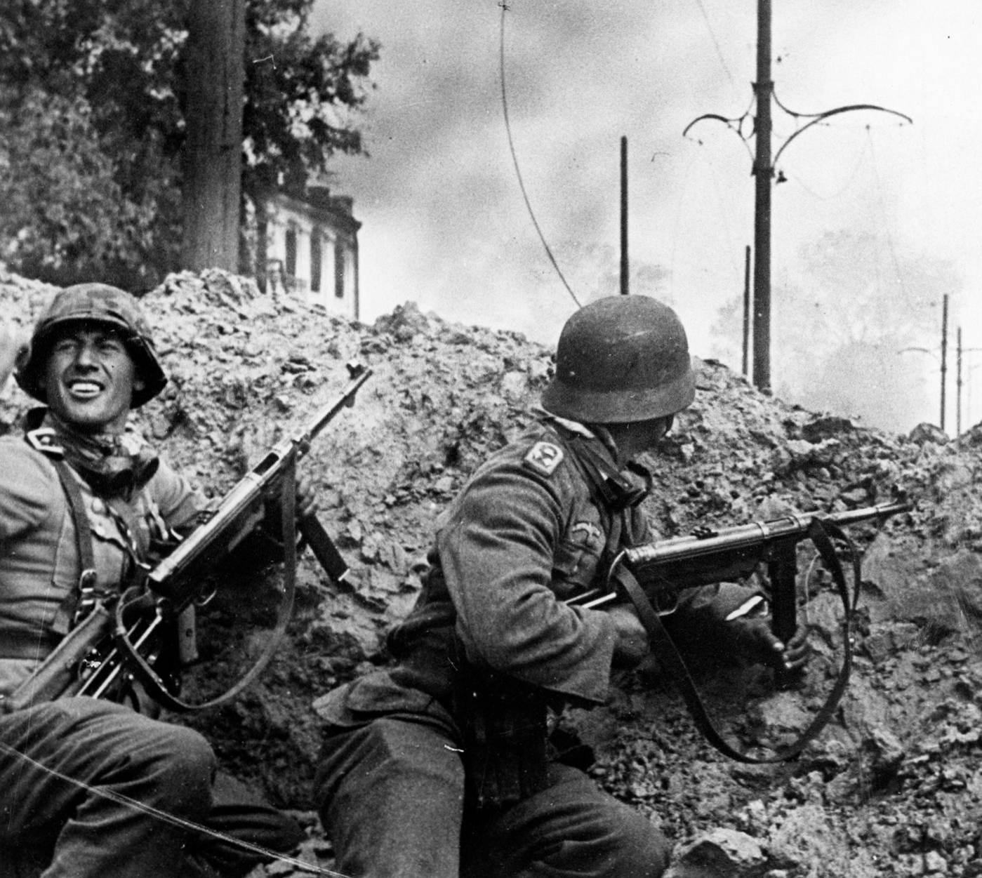 German soldiers of the 24th Panzer Division in action during the fighting for the southern station of Stalingrad, September 15, 1942